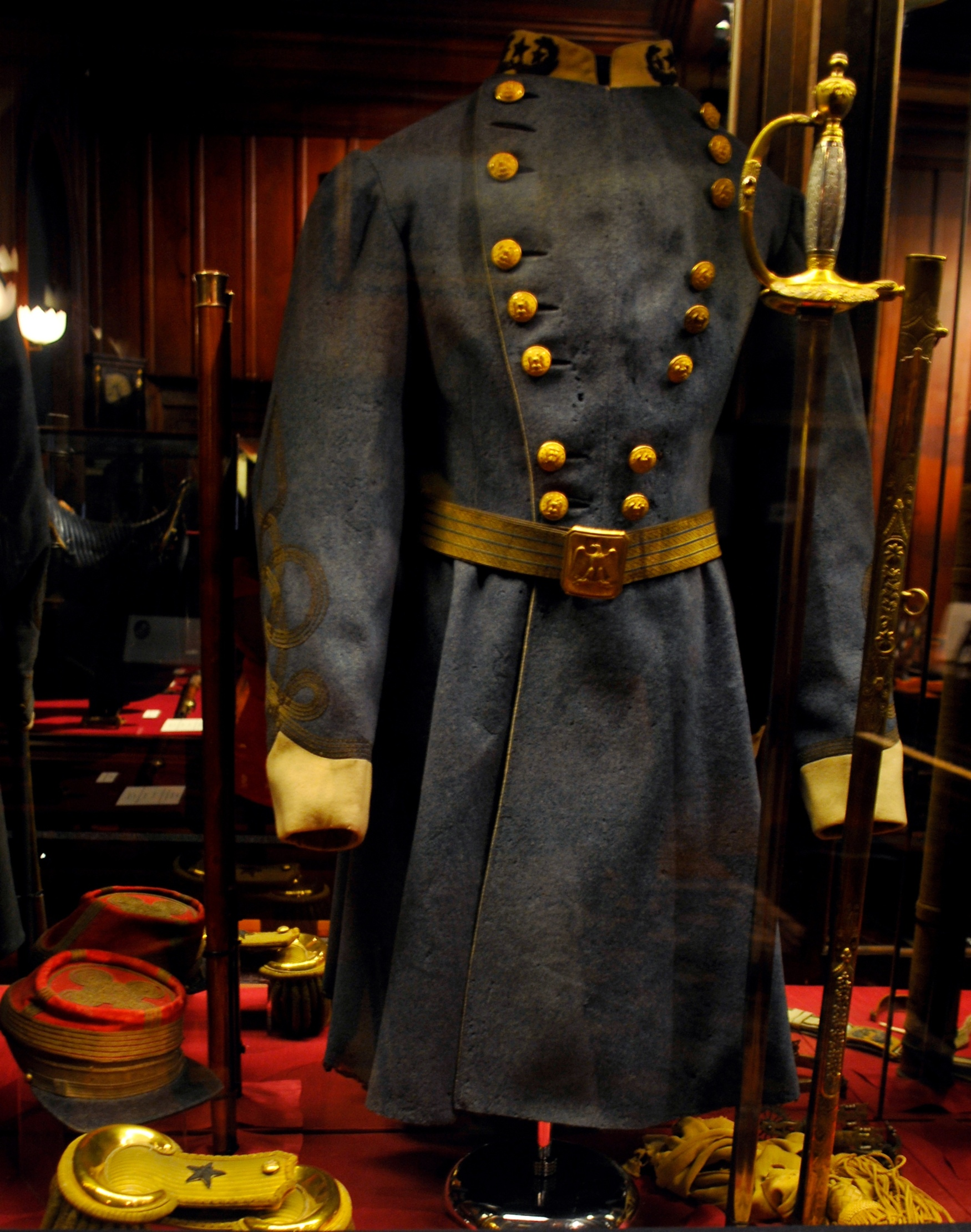 uniform worn by Brigadier General Pierre Gustave Toutant Beauregard (CSA), Confederate Memorial Hall museum in New Orleans, Louisiana